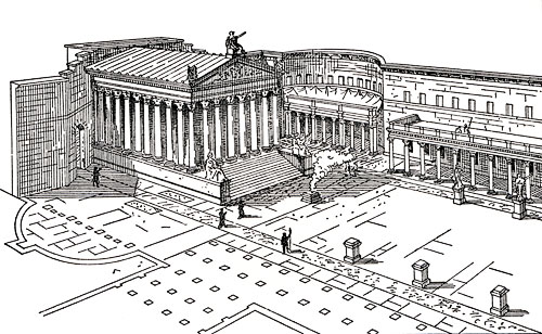 reconstruction drawing of the Forum of Augustus